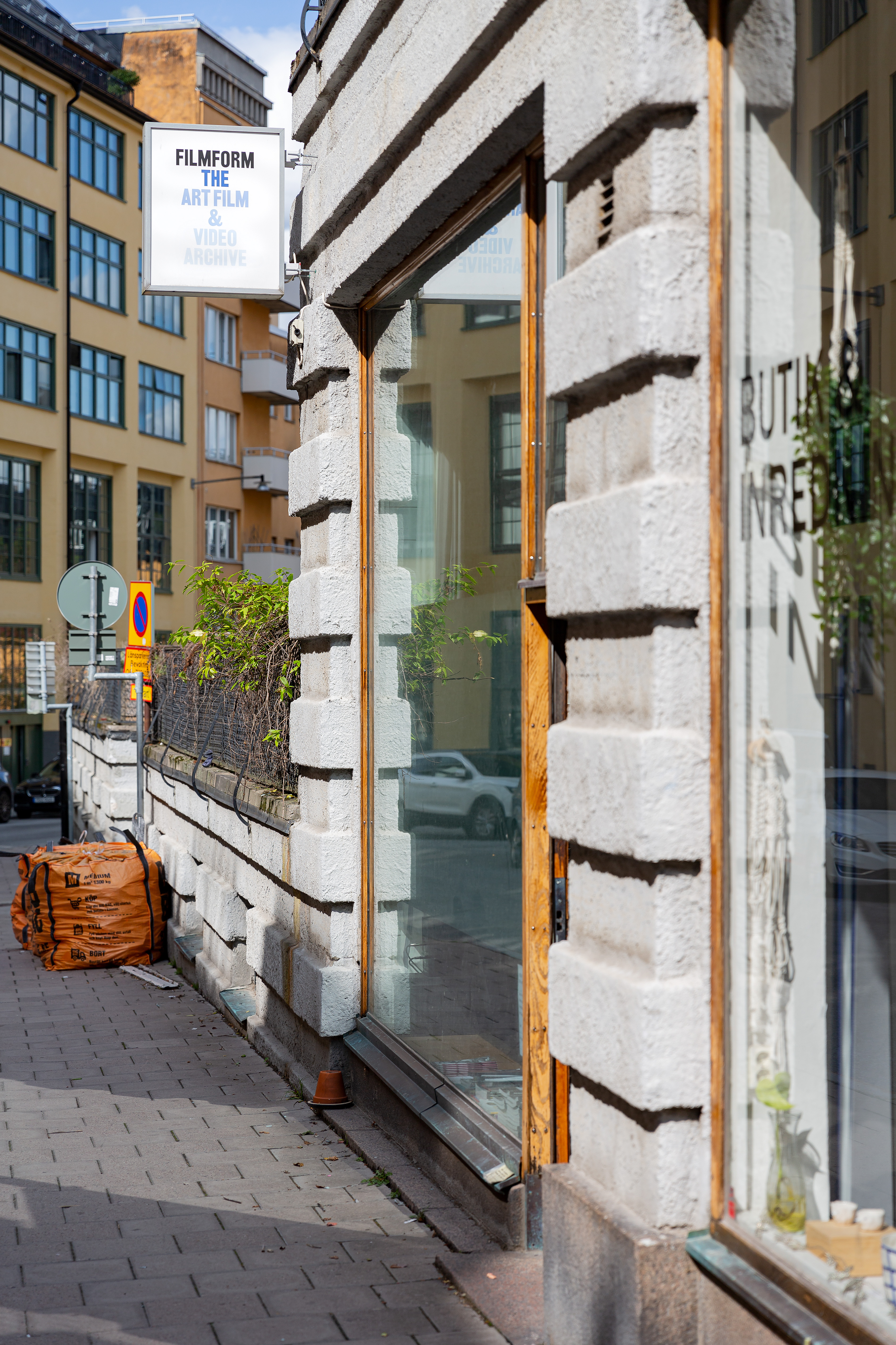 Office of Filmform in Stockholm, Sweden.